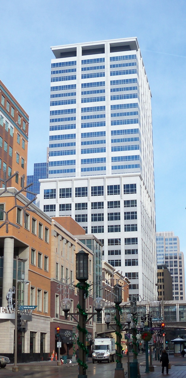 US Bancorp Center in downtown Minneapolis, Minnesota, USA.